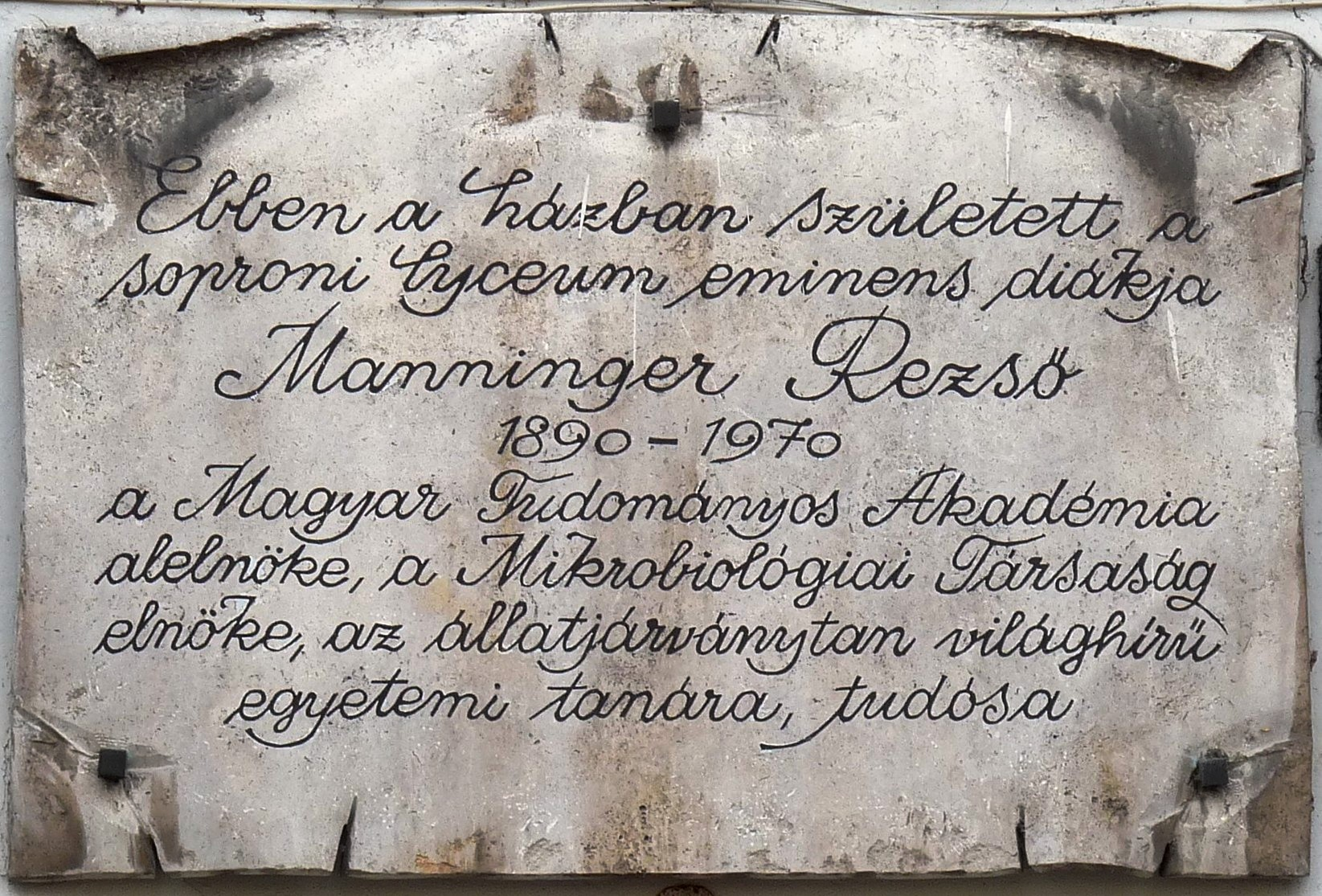 Commemorative plaque to Mr. Rezső Manninger (1890–1970) famous Hungarian veterinarian and professor. It is affixed to the house where he was born. (Sopron, Várkerület Nr 30)